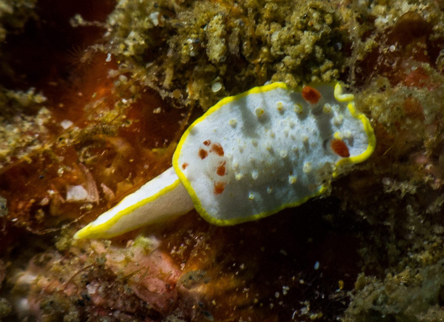 Ola Khalaf's Nudibranch (Diaphorodoris olakhalafi Khalaf, 2017) from Dibba Sea, Gulf of Oman, East Coast of the United Arab Emirates.